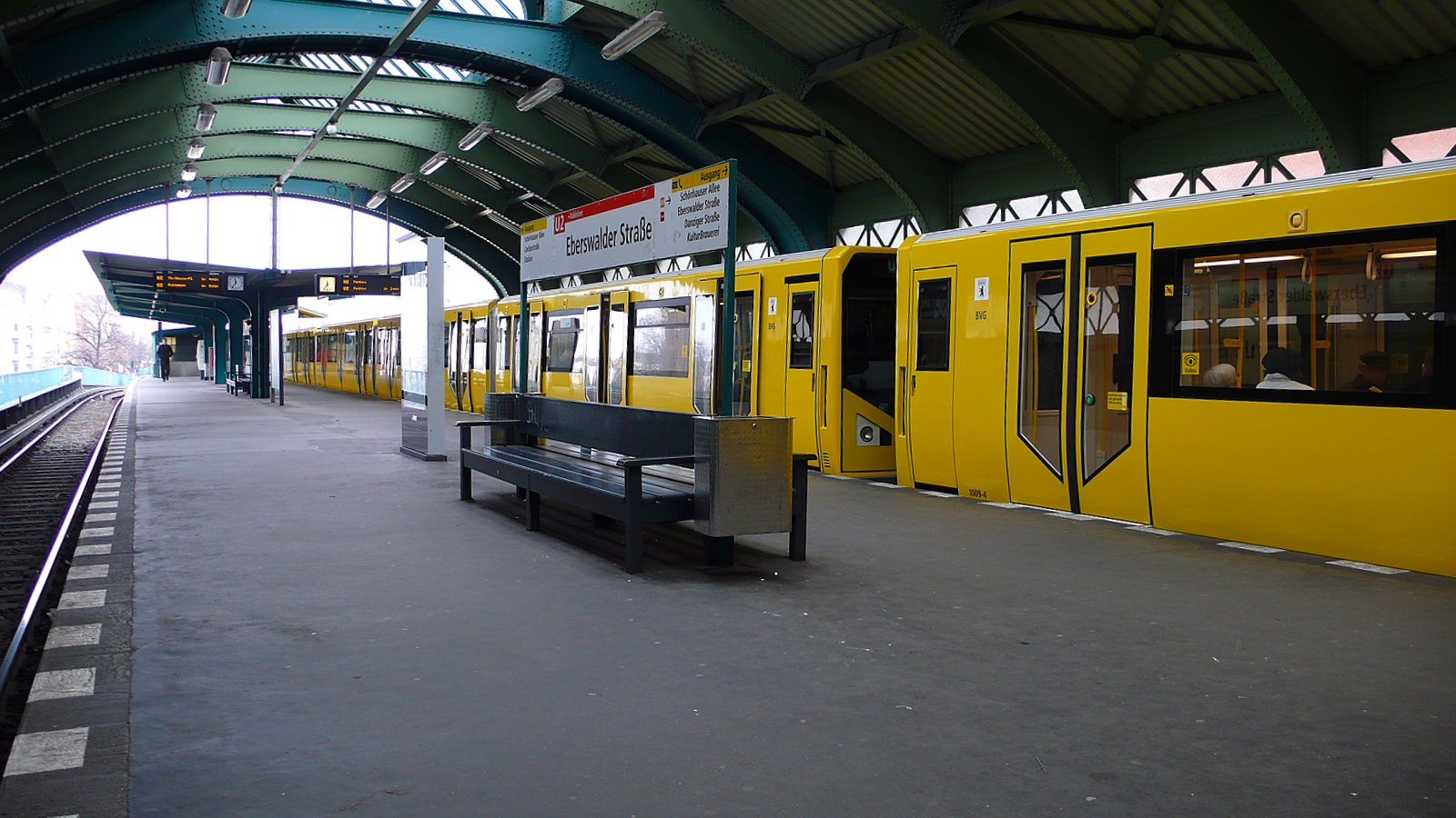 Subway Eberswalder Str. Berlin